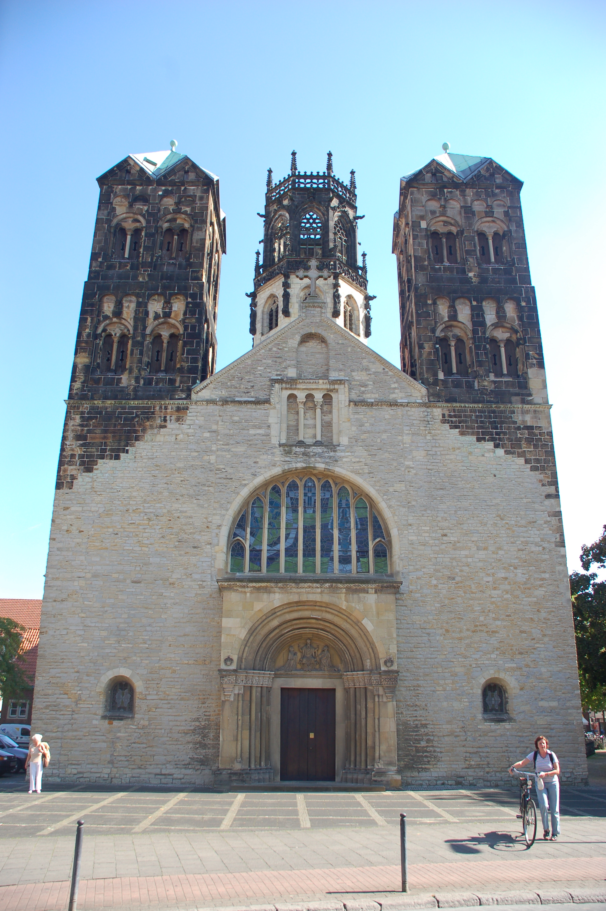 Front entrance of the St. Ludgeri Church in Münster